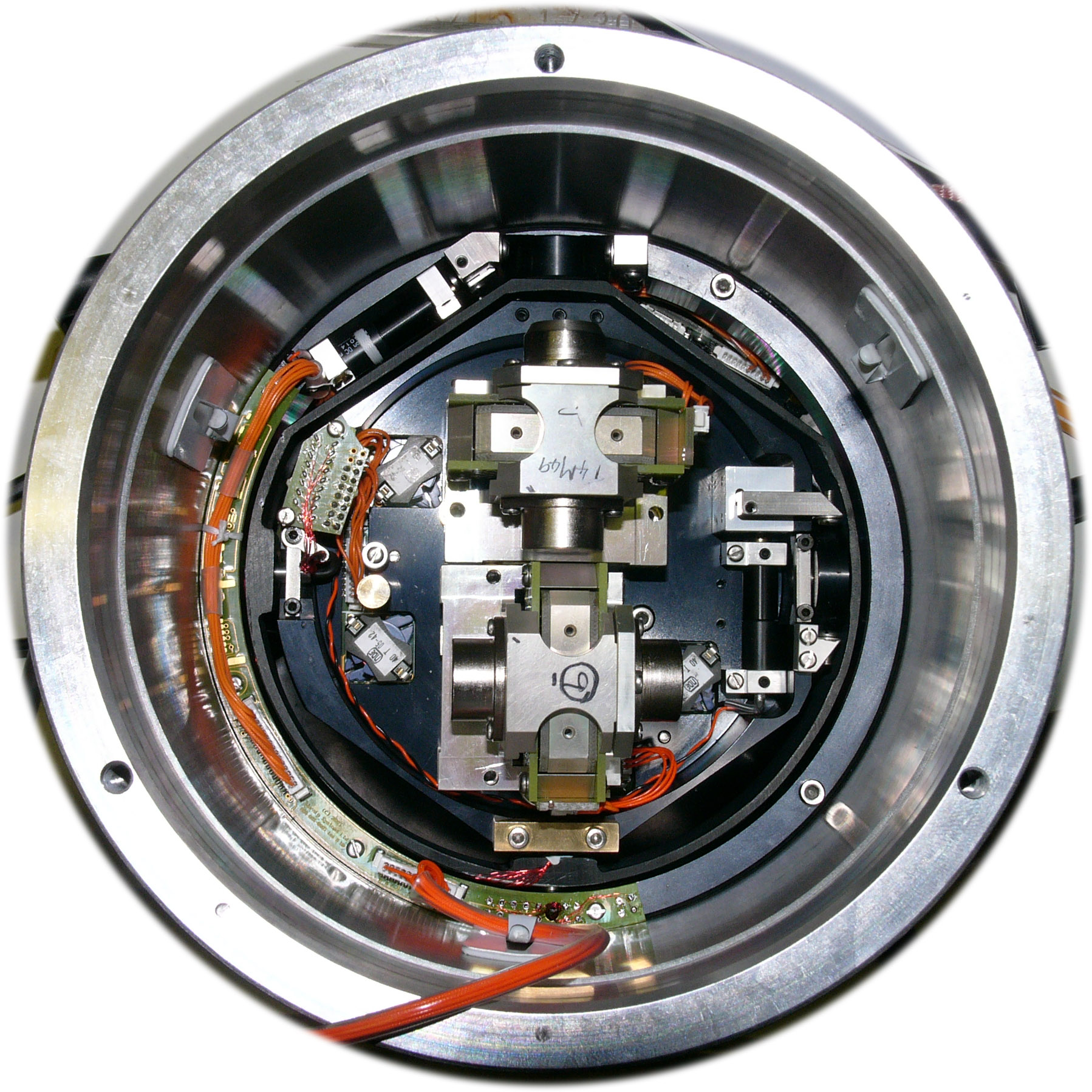 Ocean Bottom Seismometer (OBS). Two seismometer for x- and y-direction can be seen, the third one for z-direction is below. (Model of KUM from 2005; diameter of pressure cylinder is ab. 15 cm)